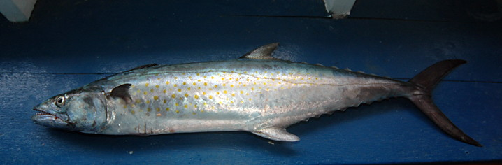 Serra Spanish mackerel, caught at Nicaragua.